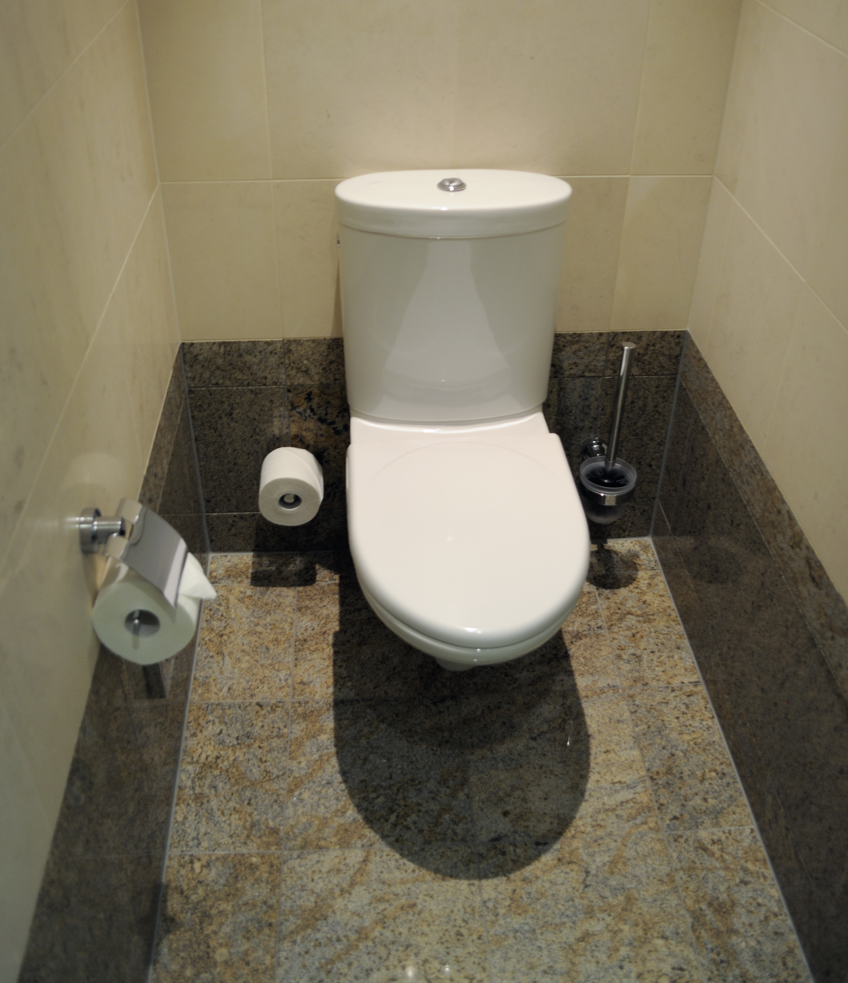 Hotel Nassauer Hof, Wiesbaden (Germany).